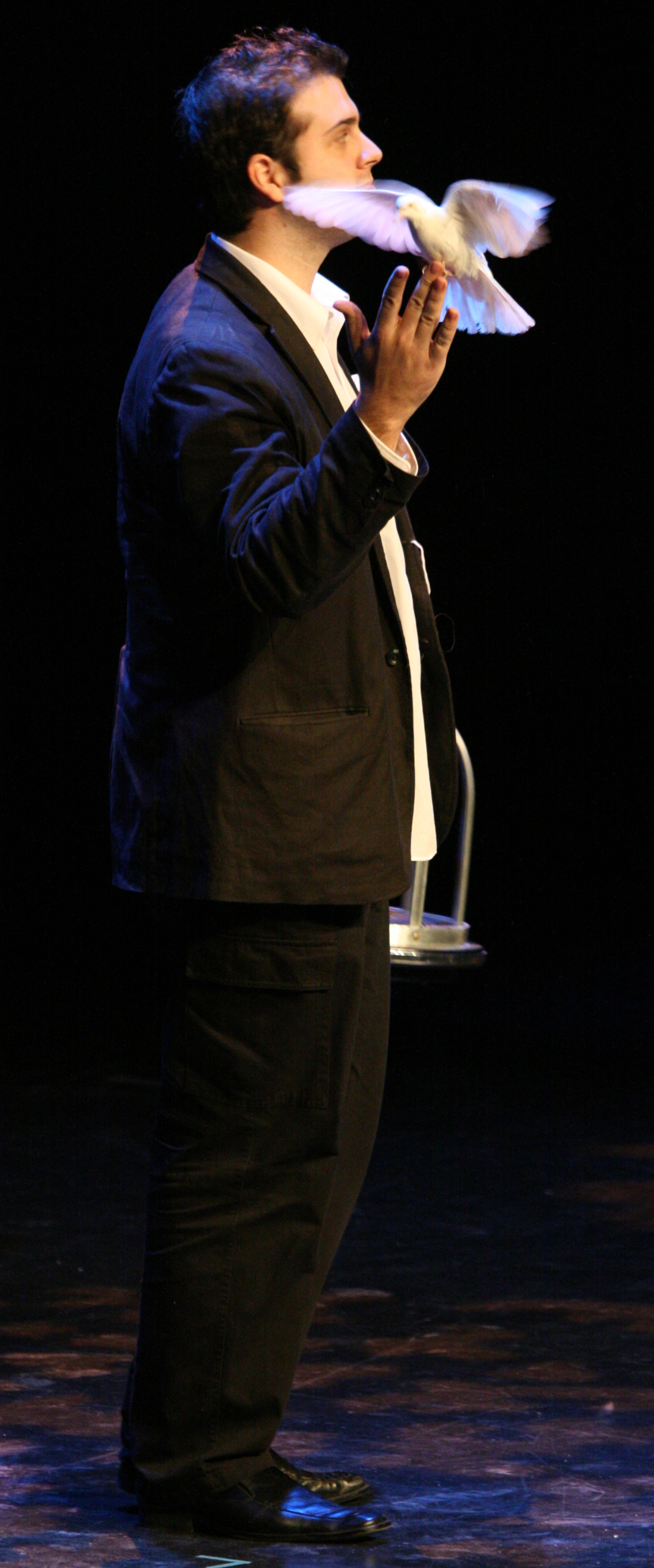 Michael in Show